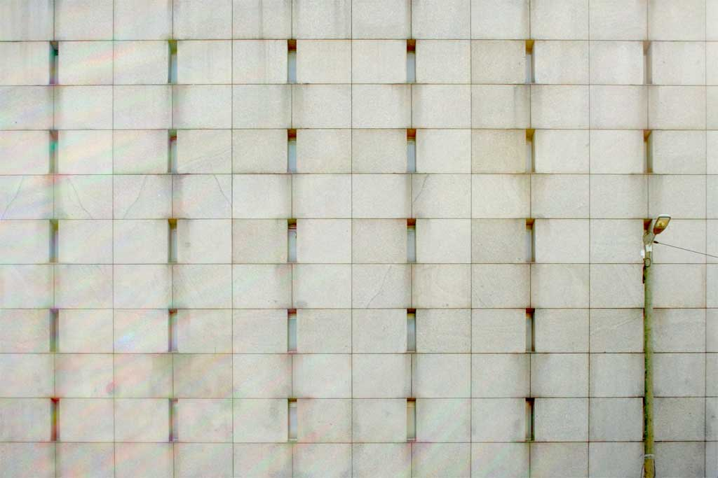 Former Historical Archive of Cologne, facade.